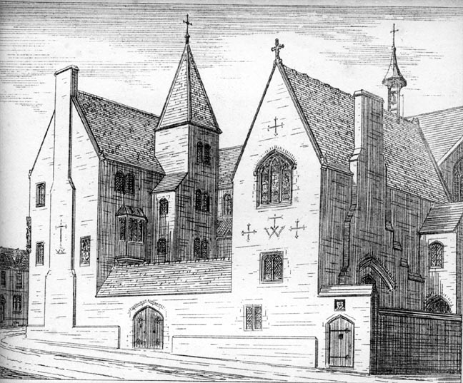 A drawing, by Augustus Pugin, of his Bishop's House in Birmingham, England, from Pugin's Present State of Ecclesiastical Architecture, facing p. 102.